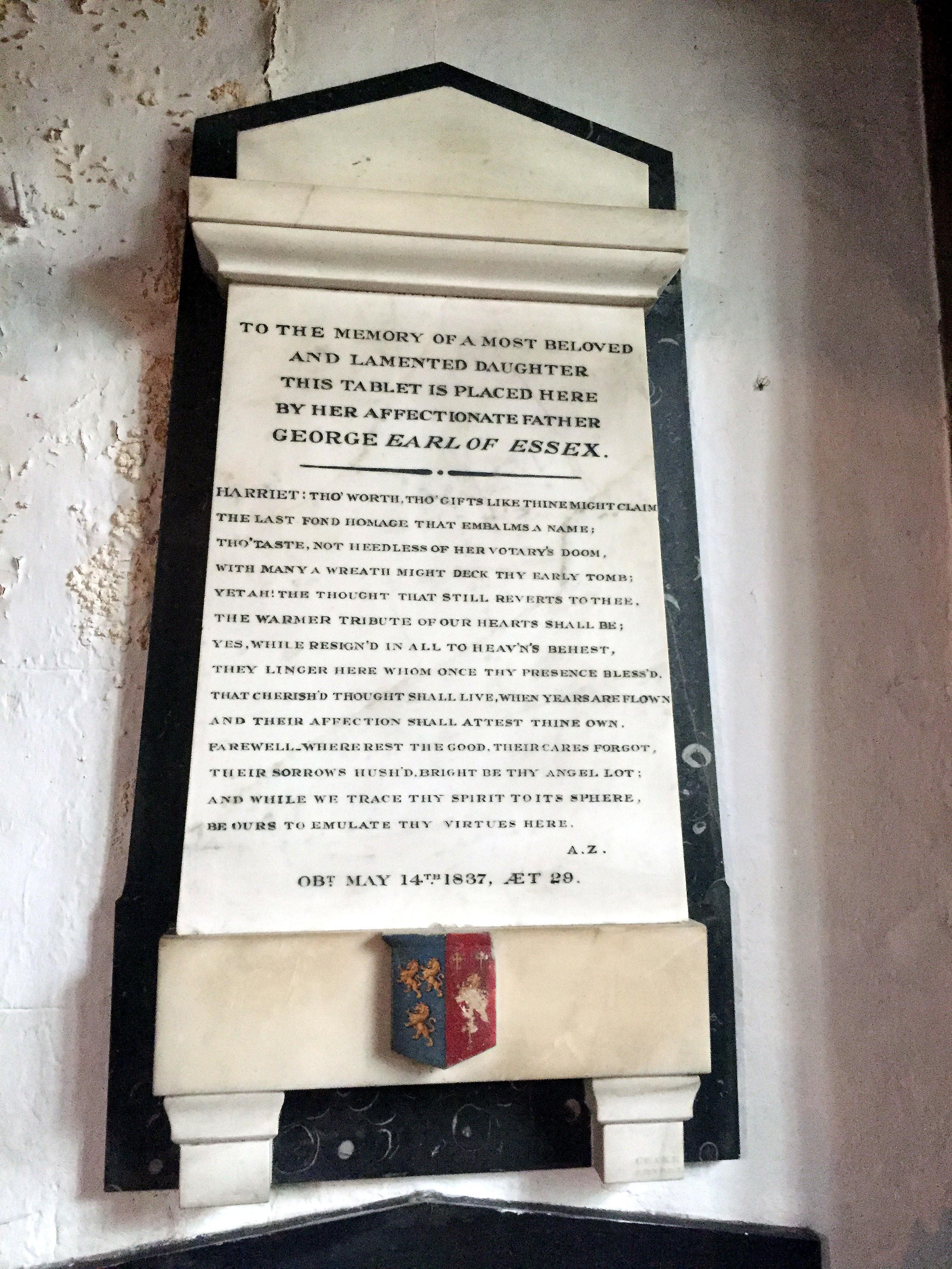 Memorial to Harriet (Mrs Ford) (1808-1837), illegitimate daughter of George Capel-Coningsby, 5th Earl of Essex, in the Essex Chapel, St Mary's Parish Church, Watford, Hertfordshire. She married Richard Ford, son of Sir Richard Ford, in 1824. She died on 14 May 1837. Children of Harriet Capell and Richard Ford: Rt. Hon. Sir Francis Clare Ford d. 31 Jan 1899 Mary Jane Ford d. 11 Apr 1916 Georgiana Ford b. c 1826, d. 10 Feb 1866 Arms of Ford of Ilsington, Devon: Azure, three lions rampant crowned or (A Complete Body of Heraldry, Volume 2 By Joseph Edmondson) "(Richard Ford) married, secondly, Eliza Linnington, daughter of James Edmund Linnington, 9th Lord Cranstoun, in 1838 at Stoke Gabriel, Devon, England.2 He married, thirdly, Mary Molesworth, daughter of Sir Arscott Ourry Molesworth, 7th Bt. and Mary Brown, on 12 June 1851.3 He died on 1 September 1858 at age 62 at Heavitree, Devon, England.3" (